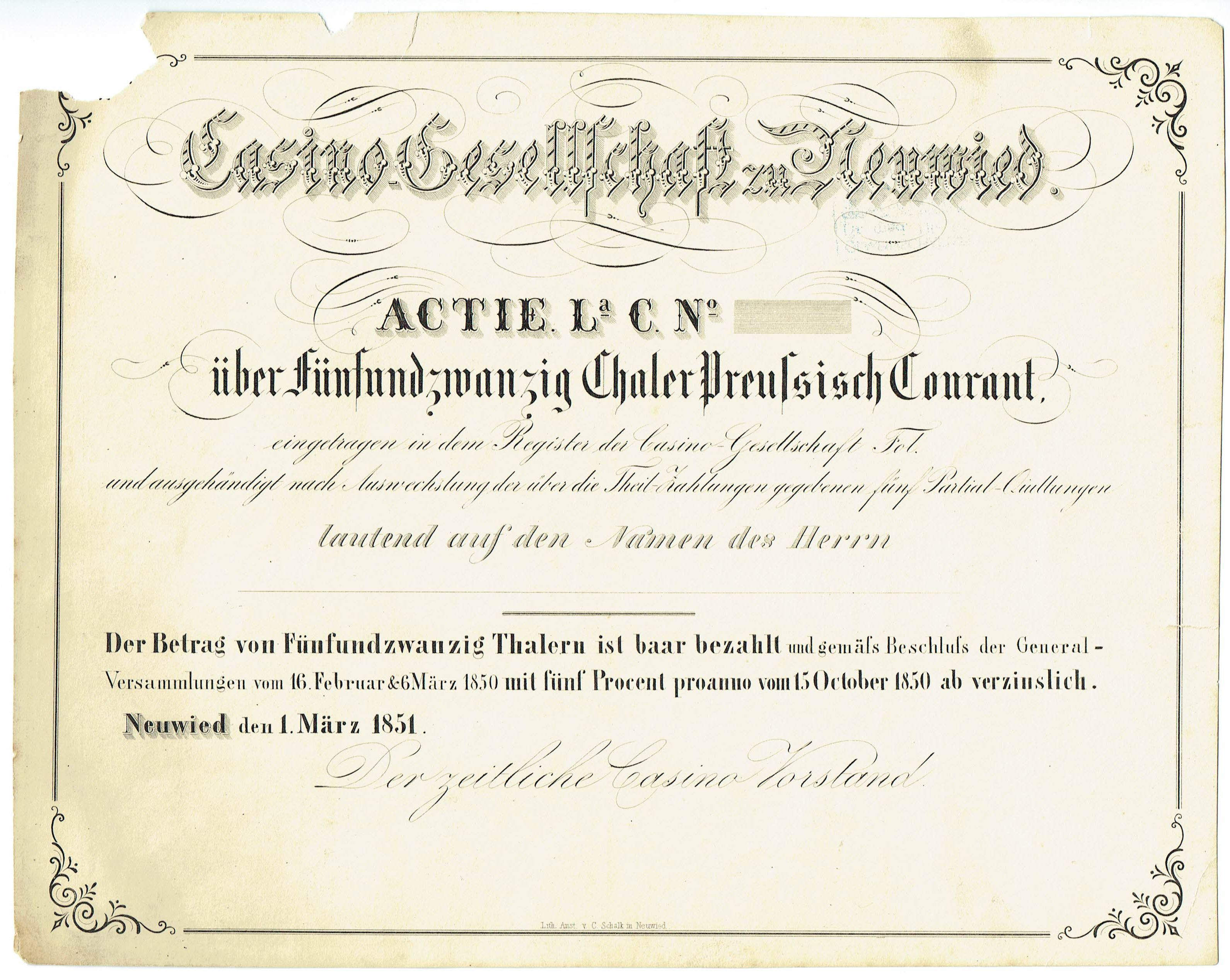 Share of the Casino-Gesellschaft zu Neuwied, issued 1. March 1851